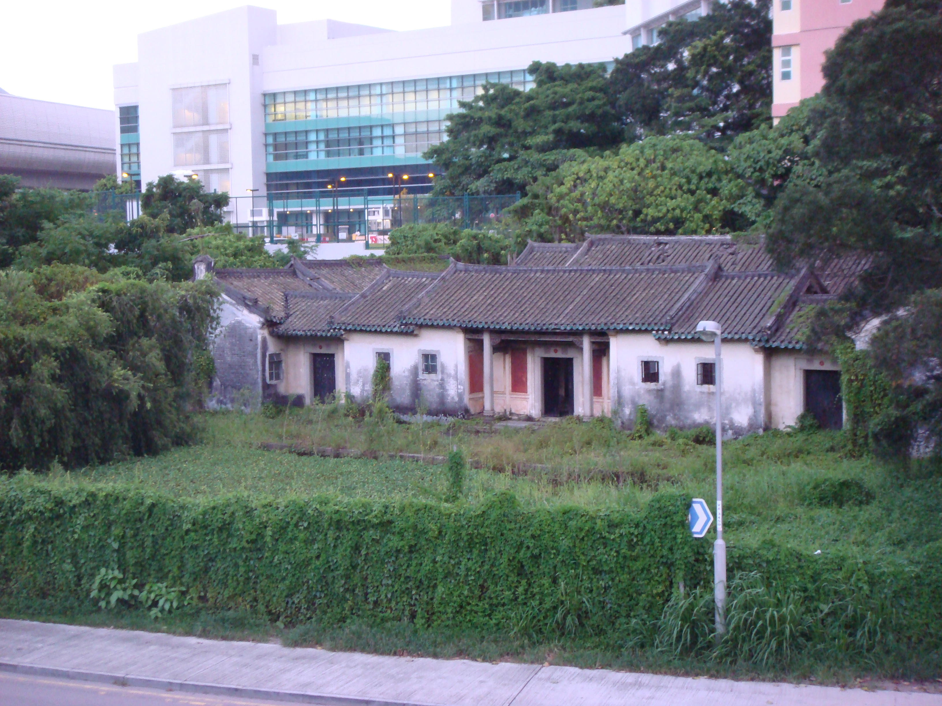 Pun Uk, a Grade I historic buildings in Au Tau, Yuen Long District of Hong Kong